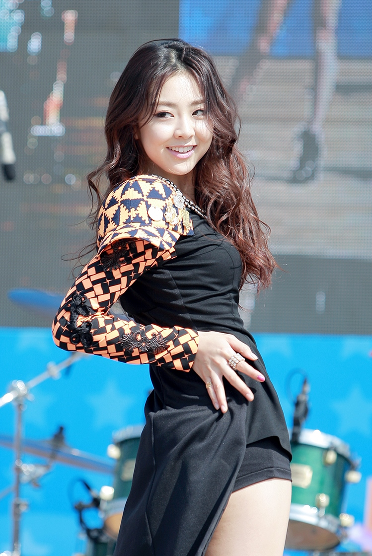 Rise Kwon in Incheon Festival Ara on May 13, 2013.